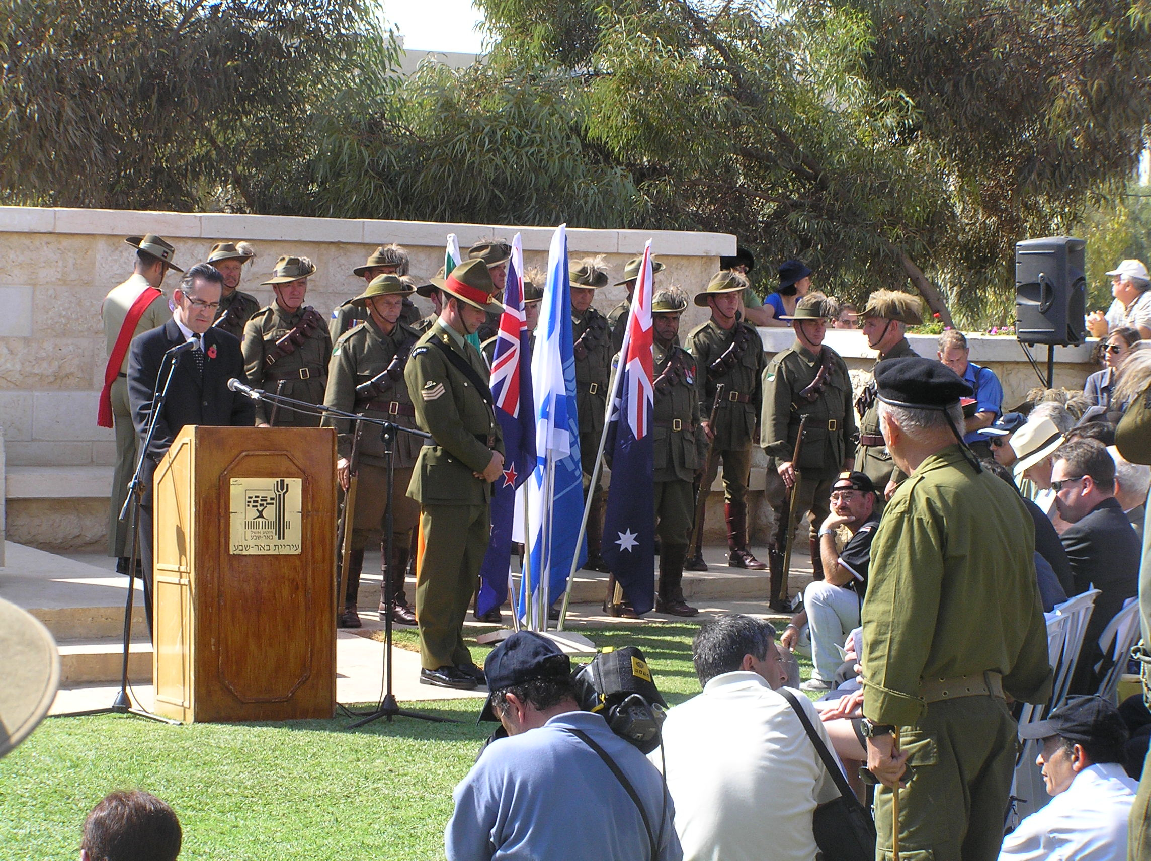 90th anniversary of the WW1 Battle of Beersheba: Annual memorial ceremony at the WW1 Commonwealth cemetery